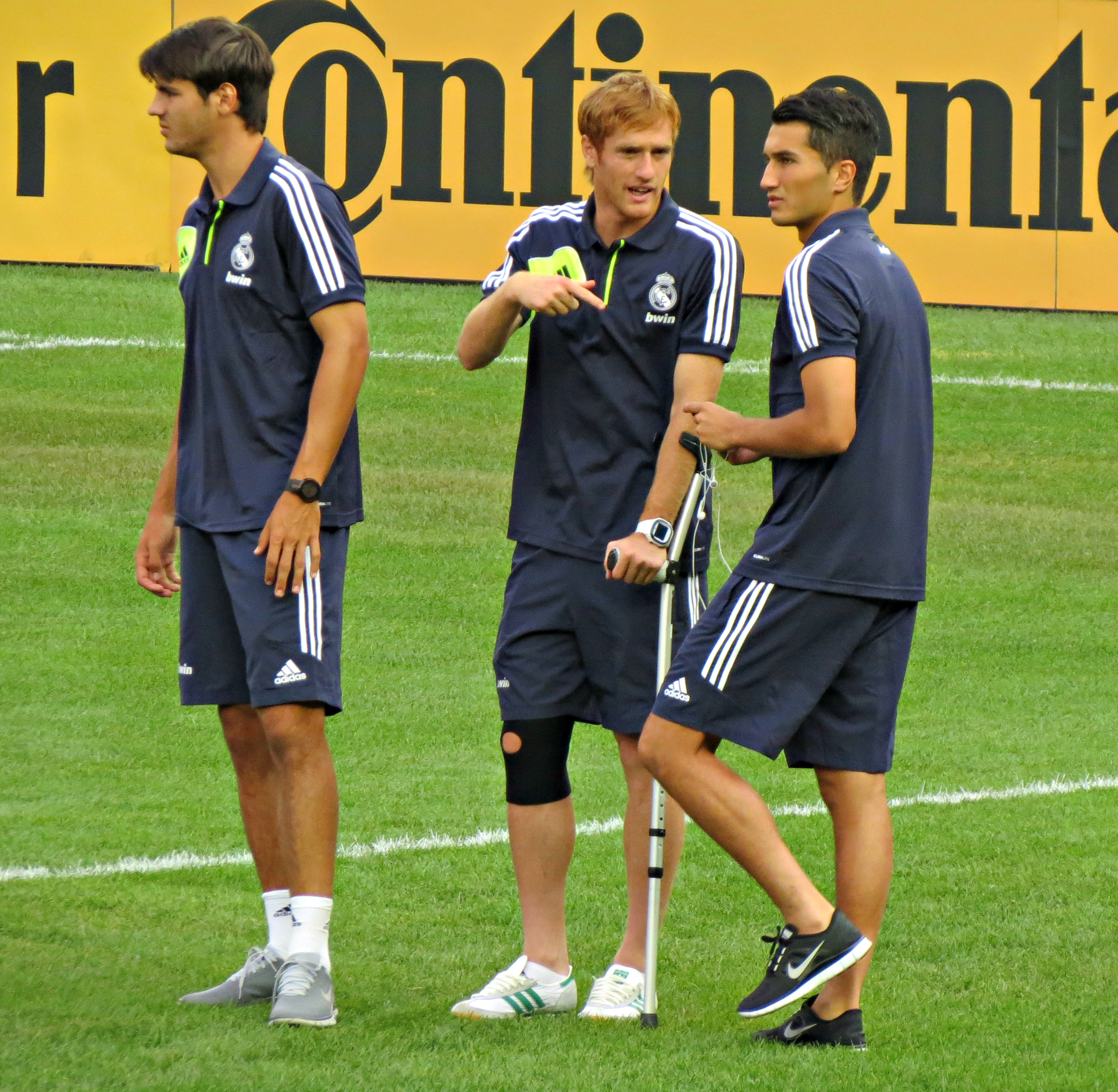 Players of REal Madrid.